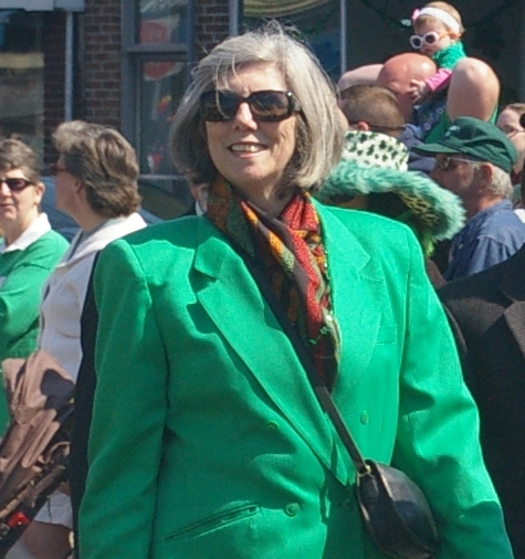 Photo of Connecticut State Representative Barbara Lambert (D-118) walking in the 2010 St. Patrick’s Day Parade in Milford, Connecticut. Cropped from a larger photo showing many local dignitaries marching together.